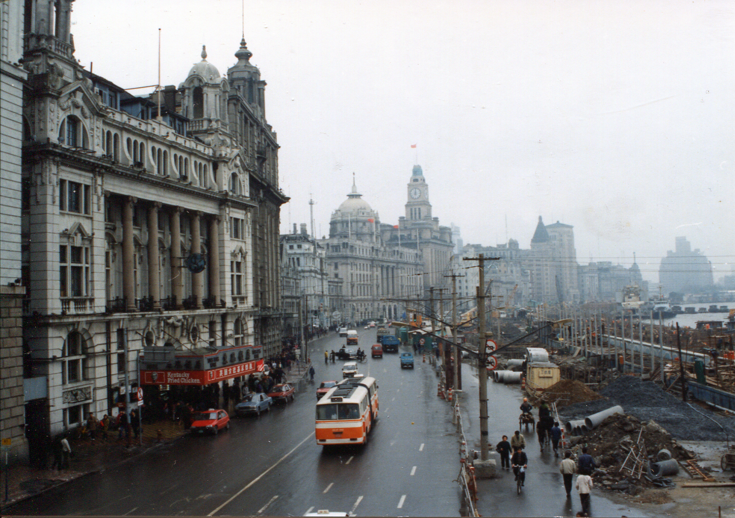 The Bund, 1992